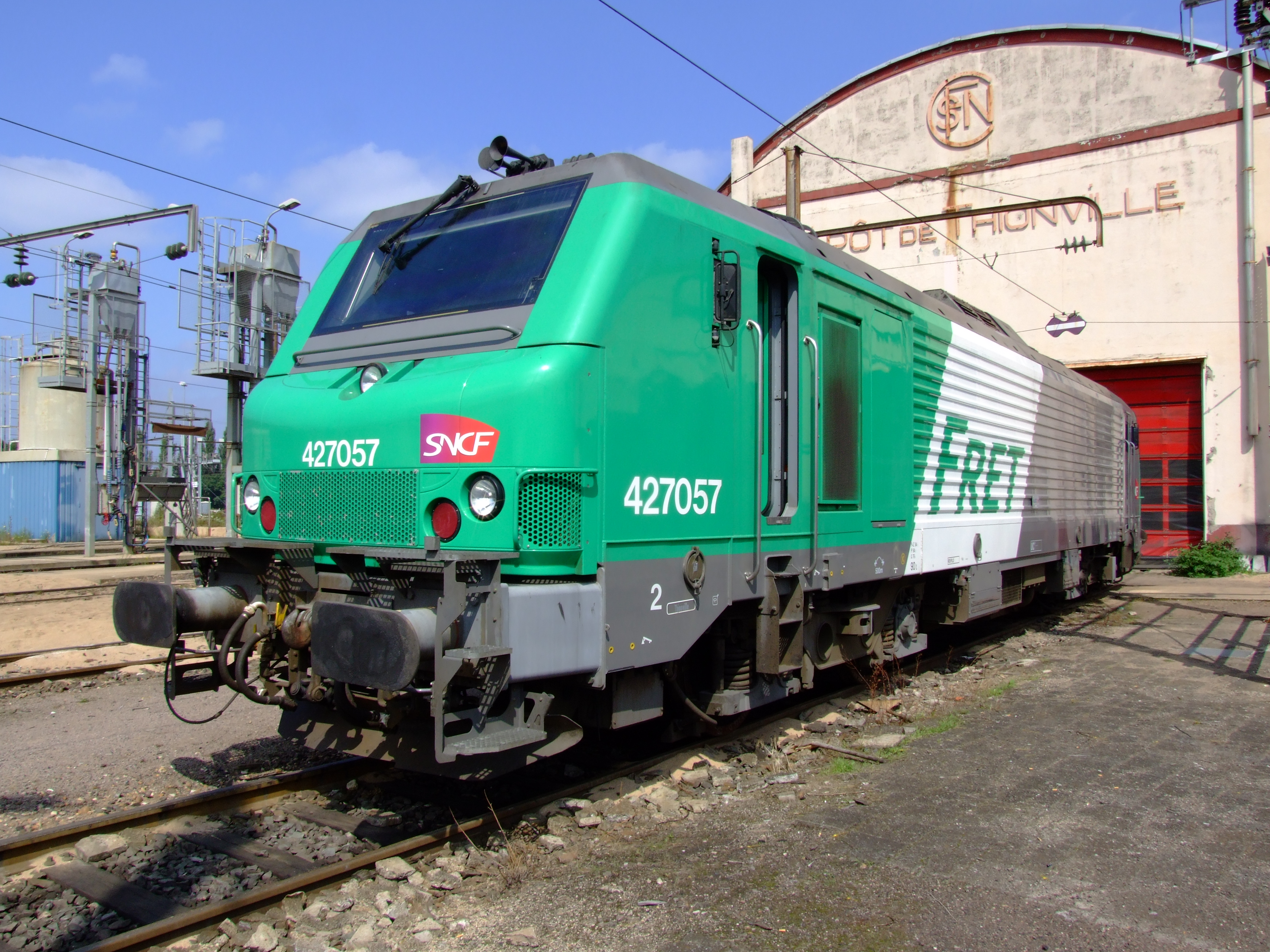 Photographed in Thionville, France.